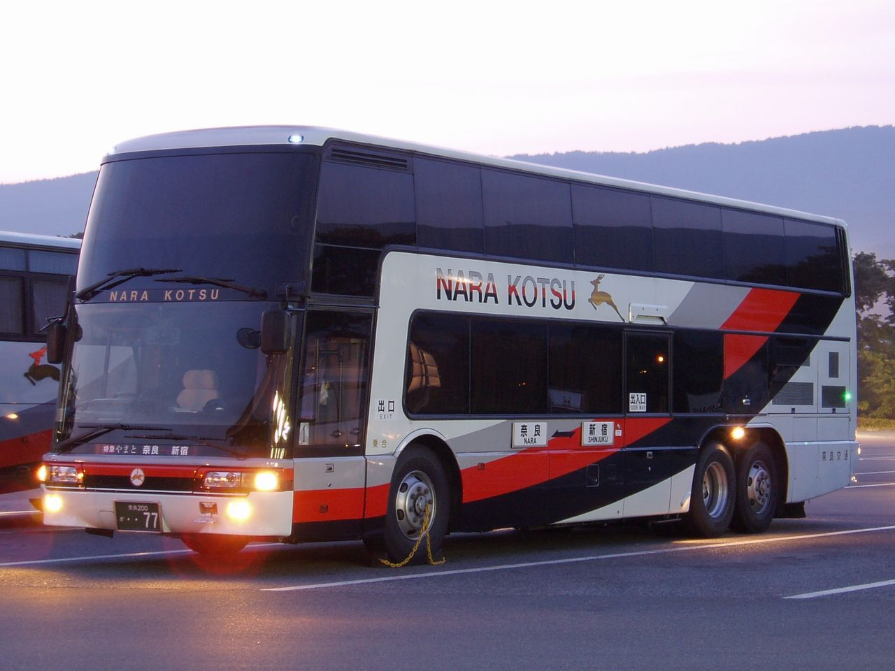 Nara Kotsu 77 "Yamato" Mitsubishi KC-MU612TA at Ashigara Service Area